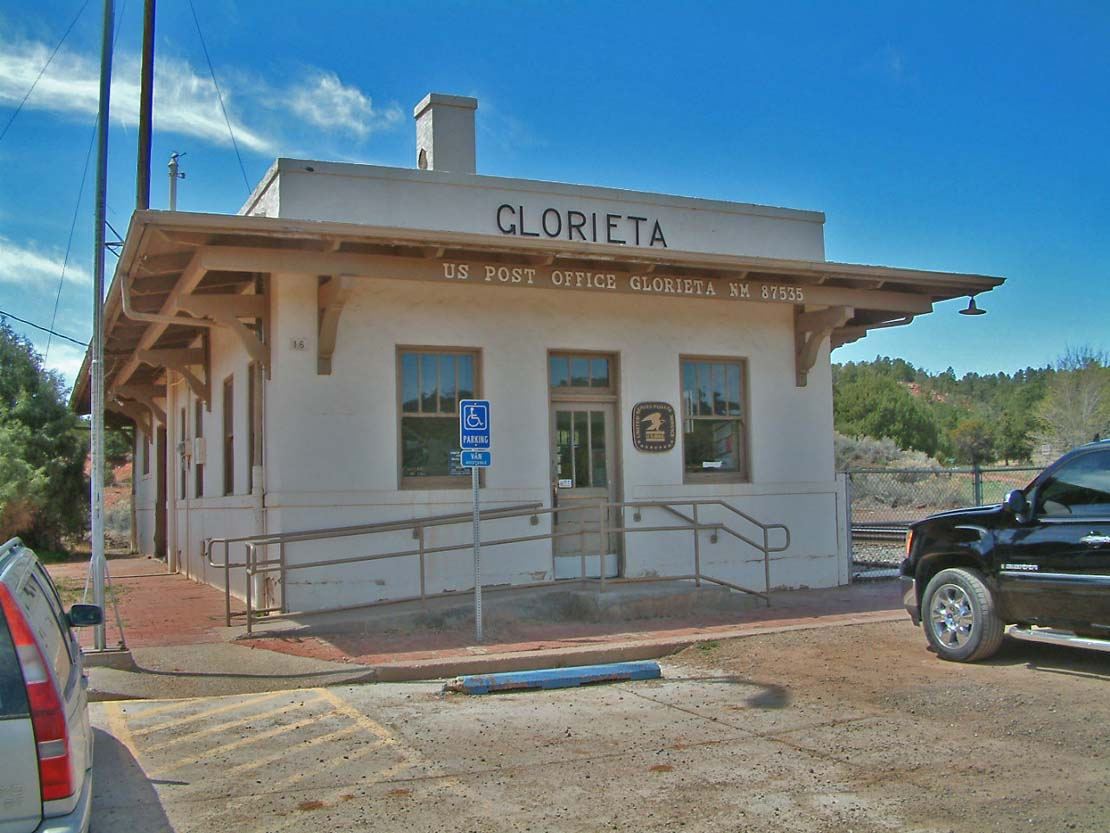 US Post Office, Glorieta, New Mexico, USA. It was formerly the train station.